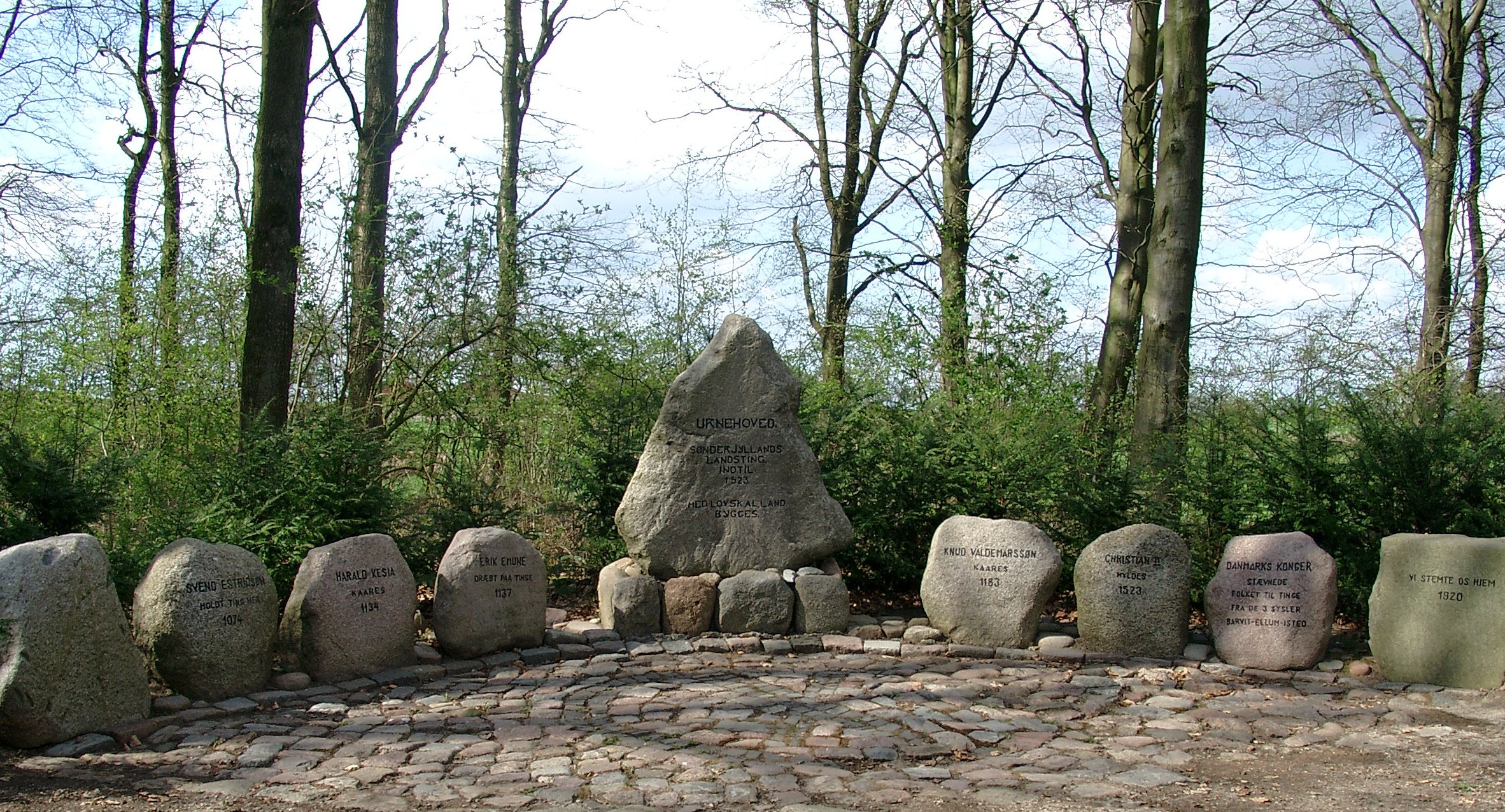 Urnehoved Mindepark. Danish memorial.